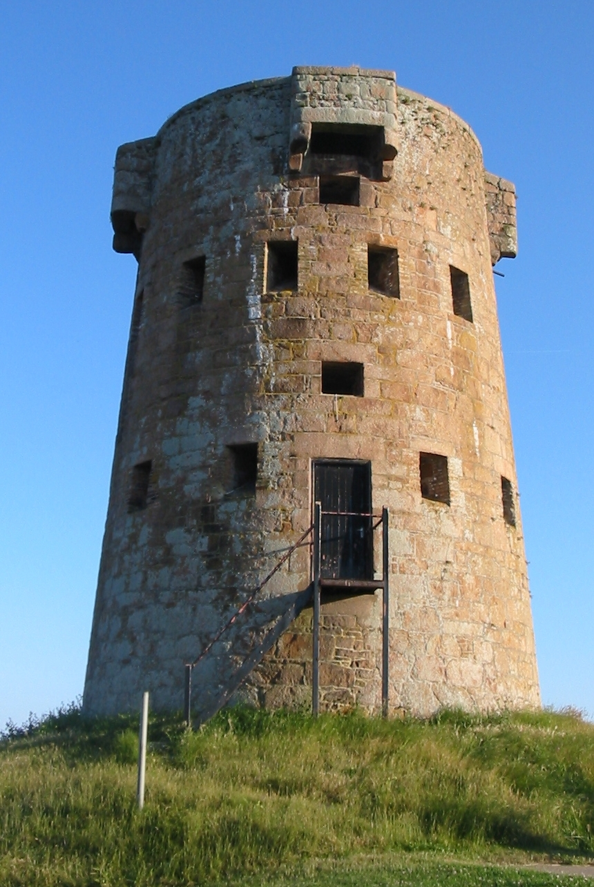 Jersey, 22 June 2009